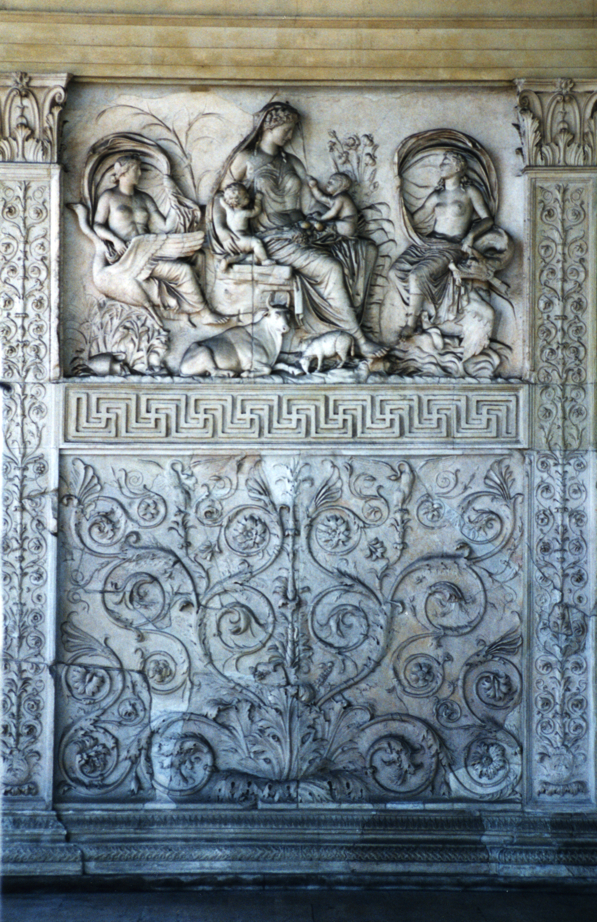 Ara Pacis: the so-called "Tellus" panel.